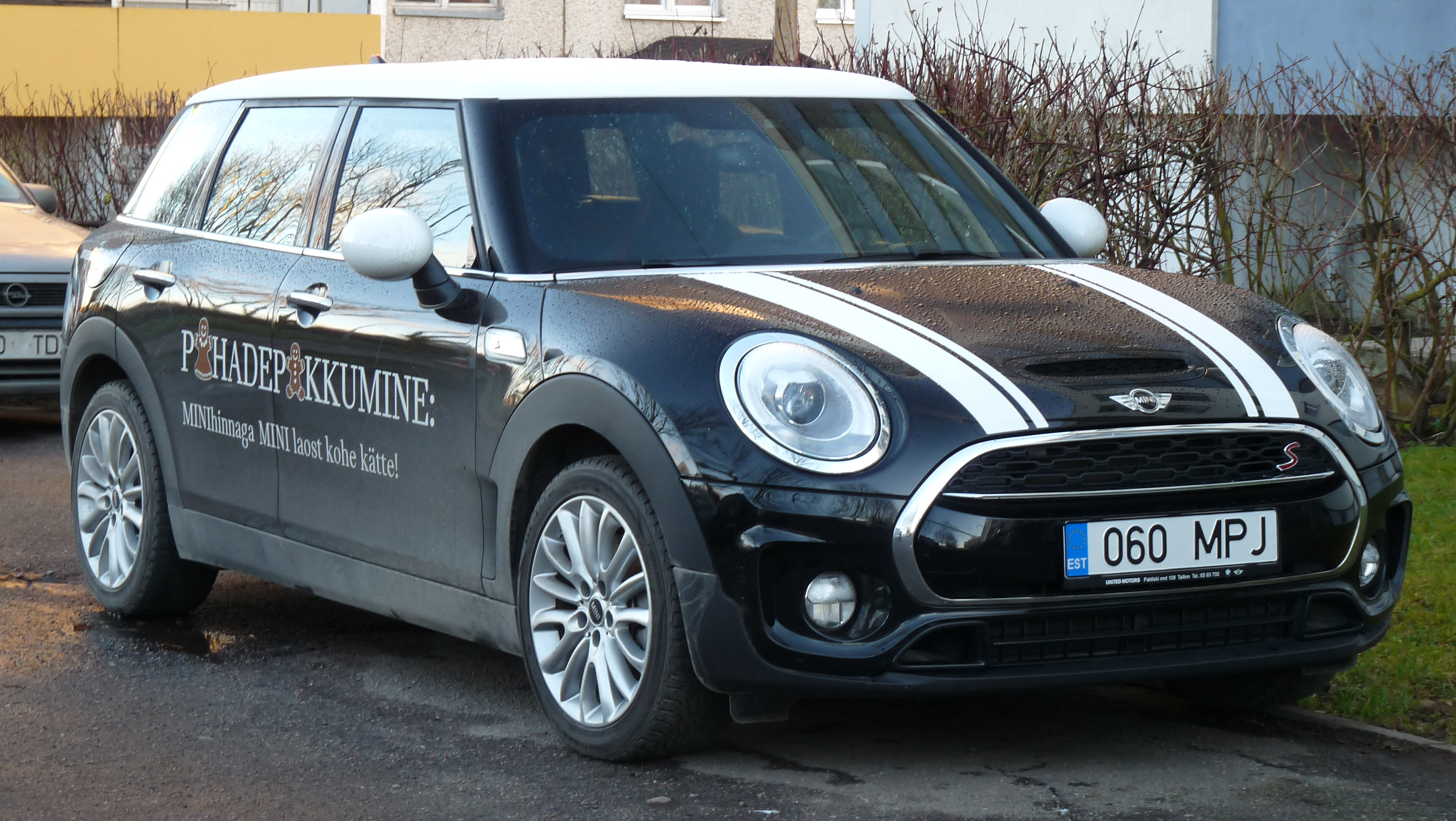 Automobile in Tallinn, Estonia